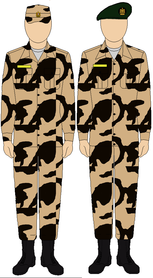 Egyptian Army Thunderbolt camouflage uniform